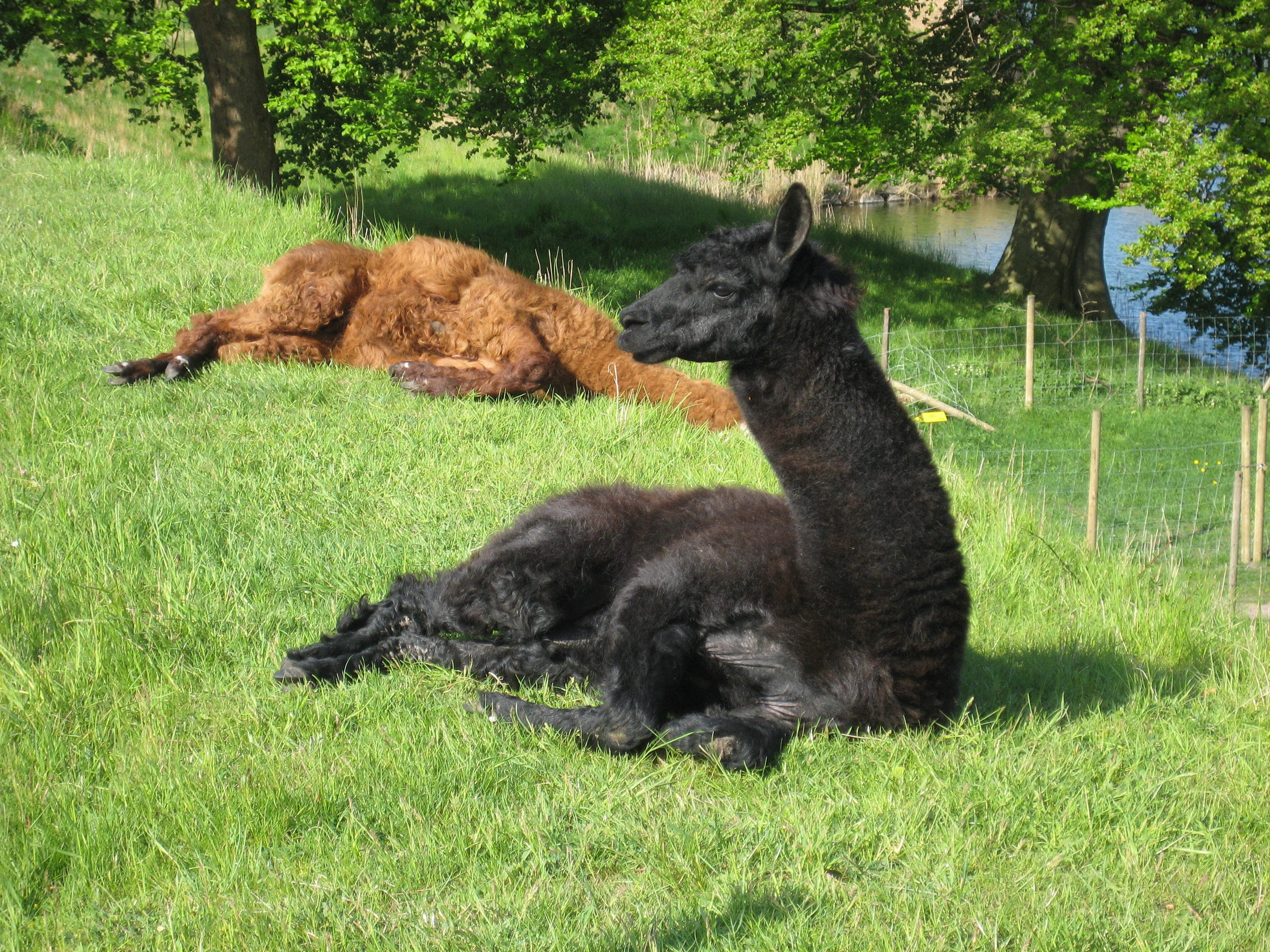 Resting Alpacas